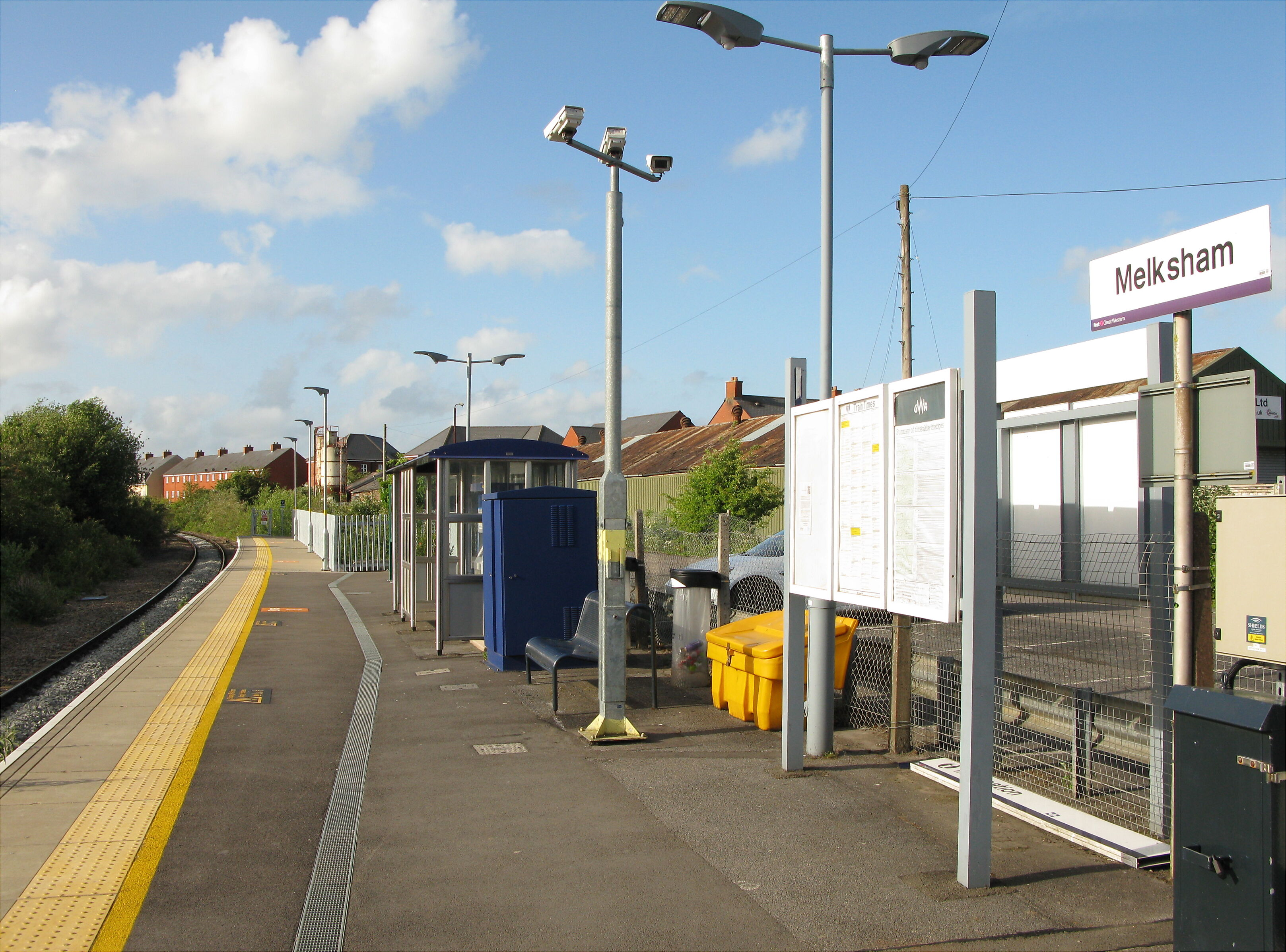 Melksham station showing 2018 platform extension